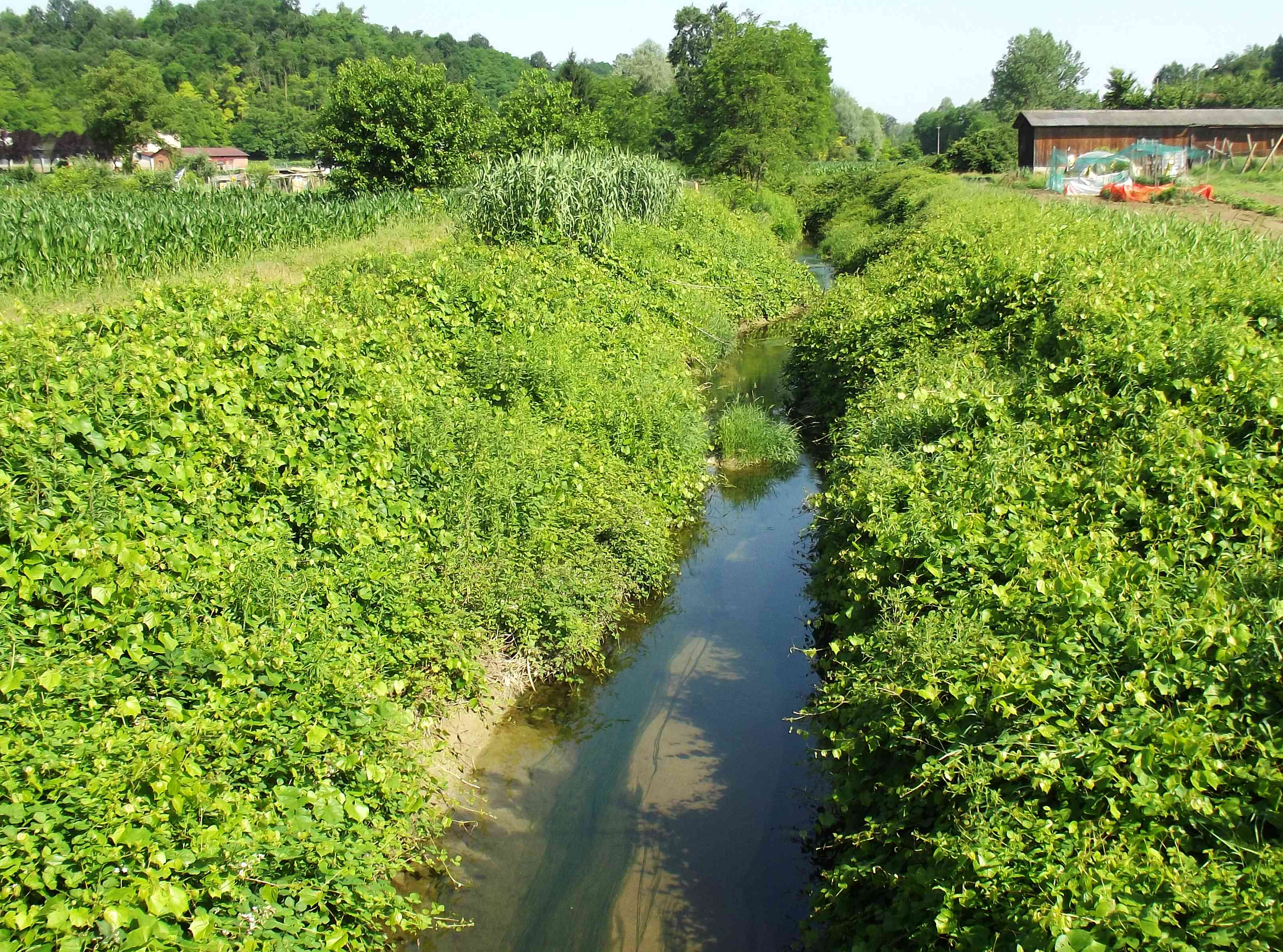 Rio di Monale nearby Baldichieri (AT, Italy)